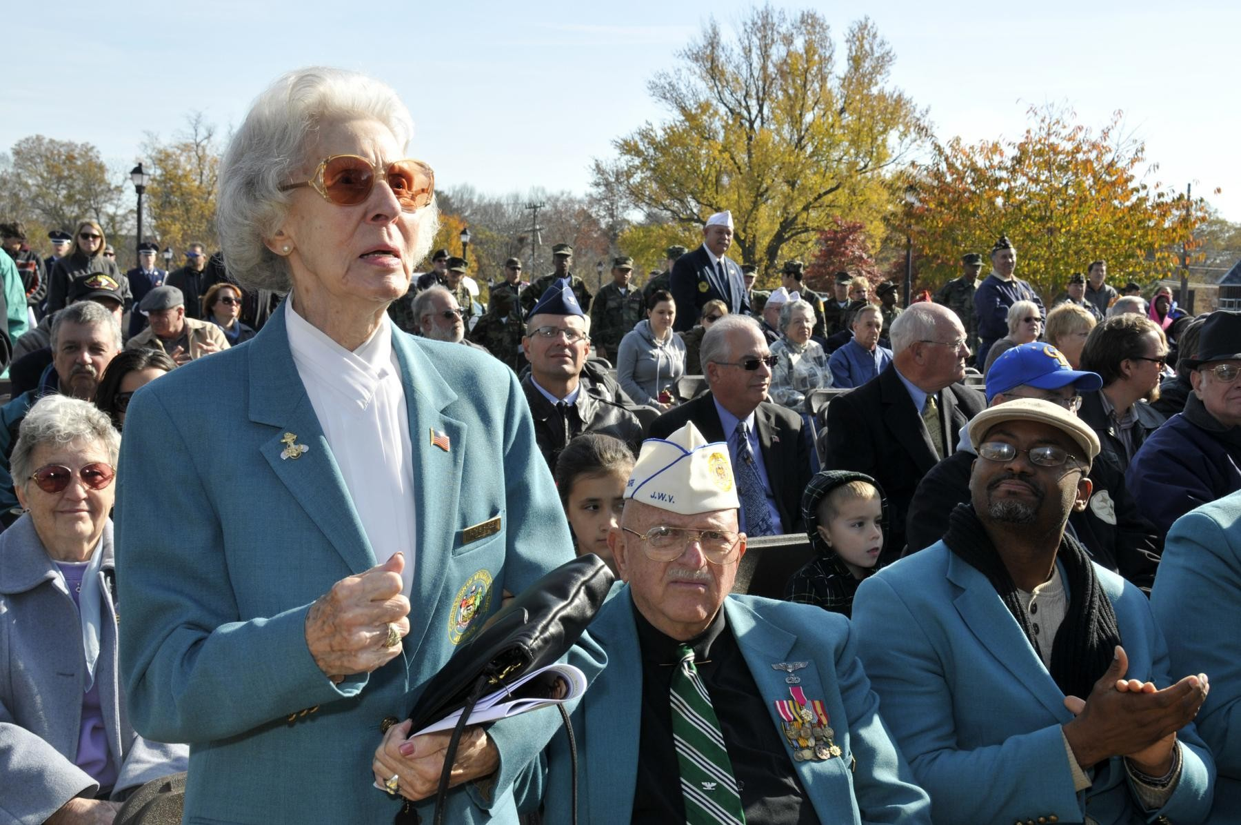 U.S. Navy veteran Ruth Harden sings as "Anchors Aweigh" is played during the dedication ceremony of the World War II memorial at Legislative Hall in Dover, Delaware, November 9, 2013. Harden is a veteran of the U.S. Navy's WAVES (Women Accepted for Volunteer Emergency Service) and a current commissioner with the Delaware Commission of Veterans Affairs.